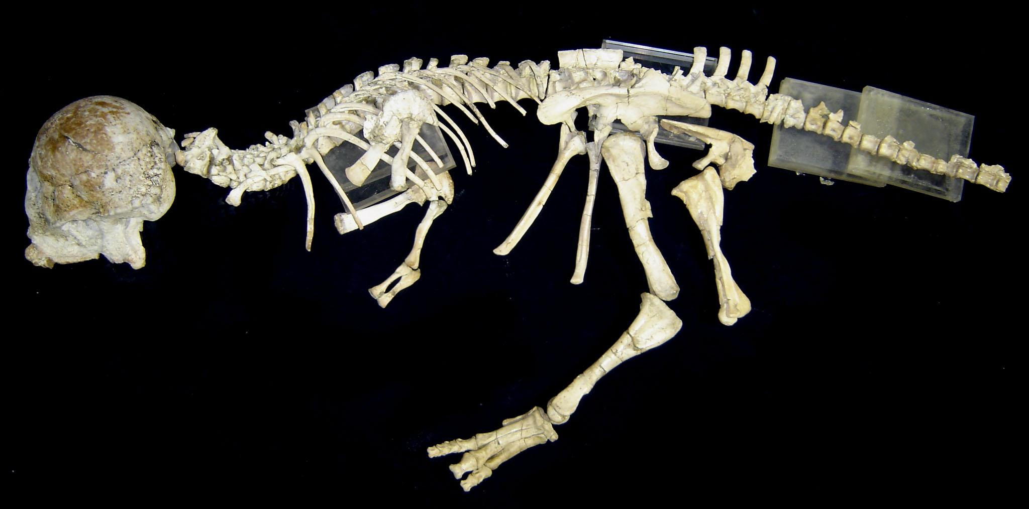 Undescribed pachycephalosaur skeleton privately owned by , attribted by the seller to the genus Prenocephale, though it has not been examined or classified by scientists.